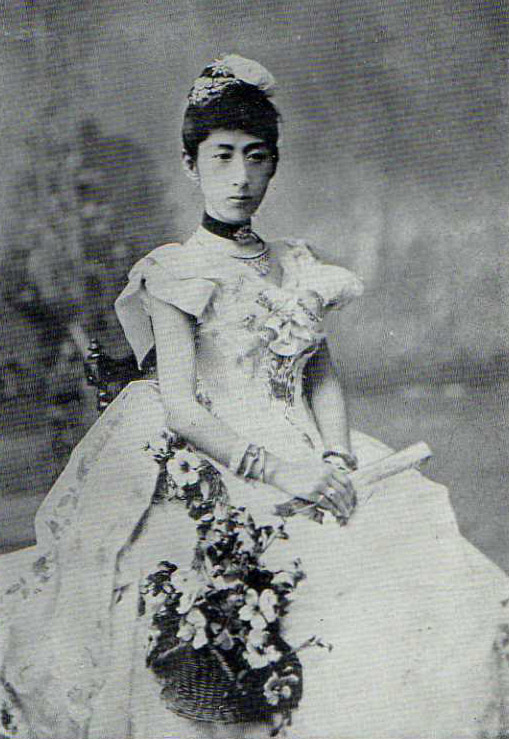 HIH Princess Fushimi Toshiko